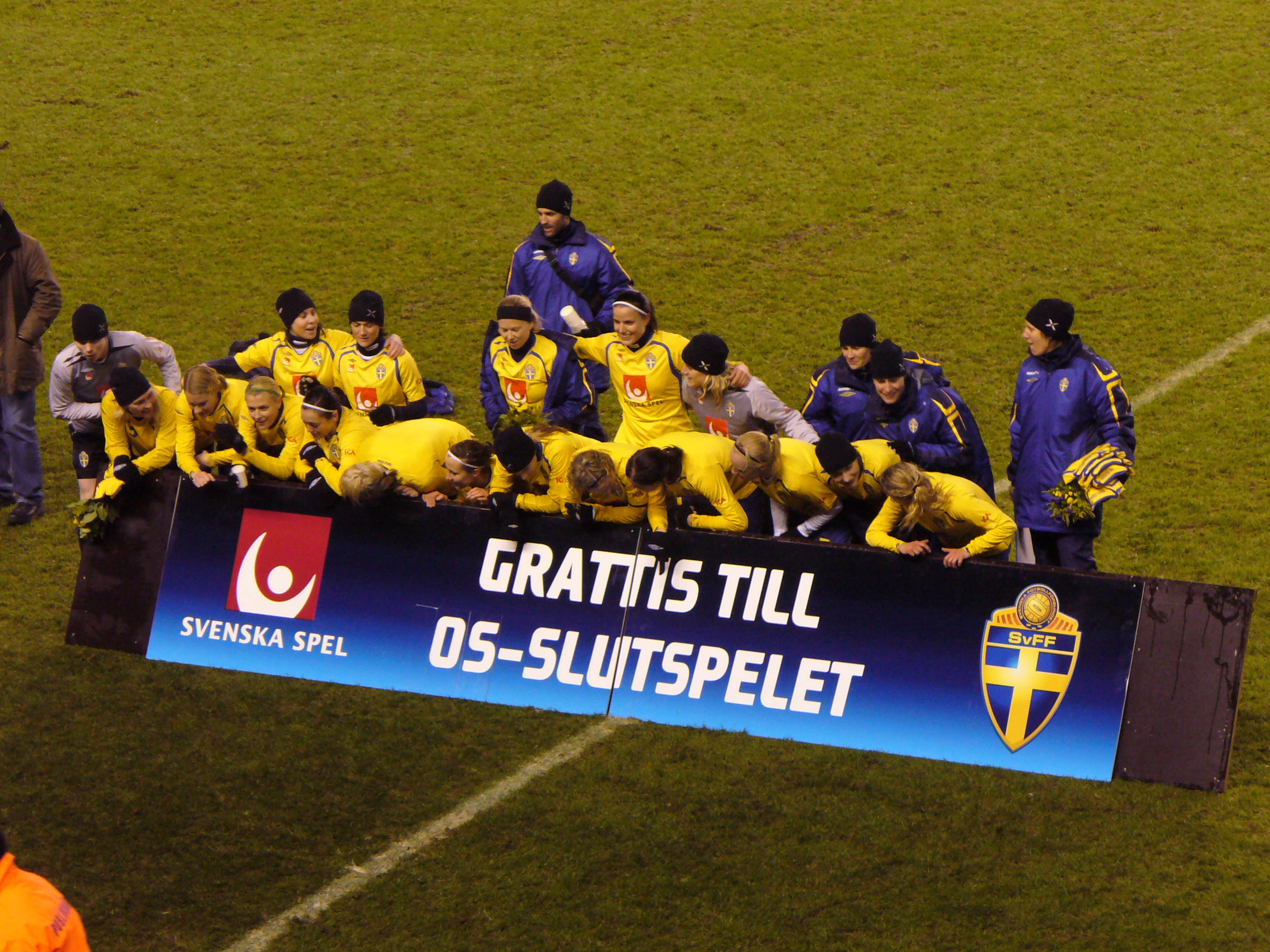 Swedish Women National Team at Råsunda after qualifying to 2008 Olympics